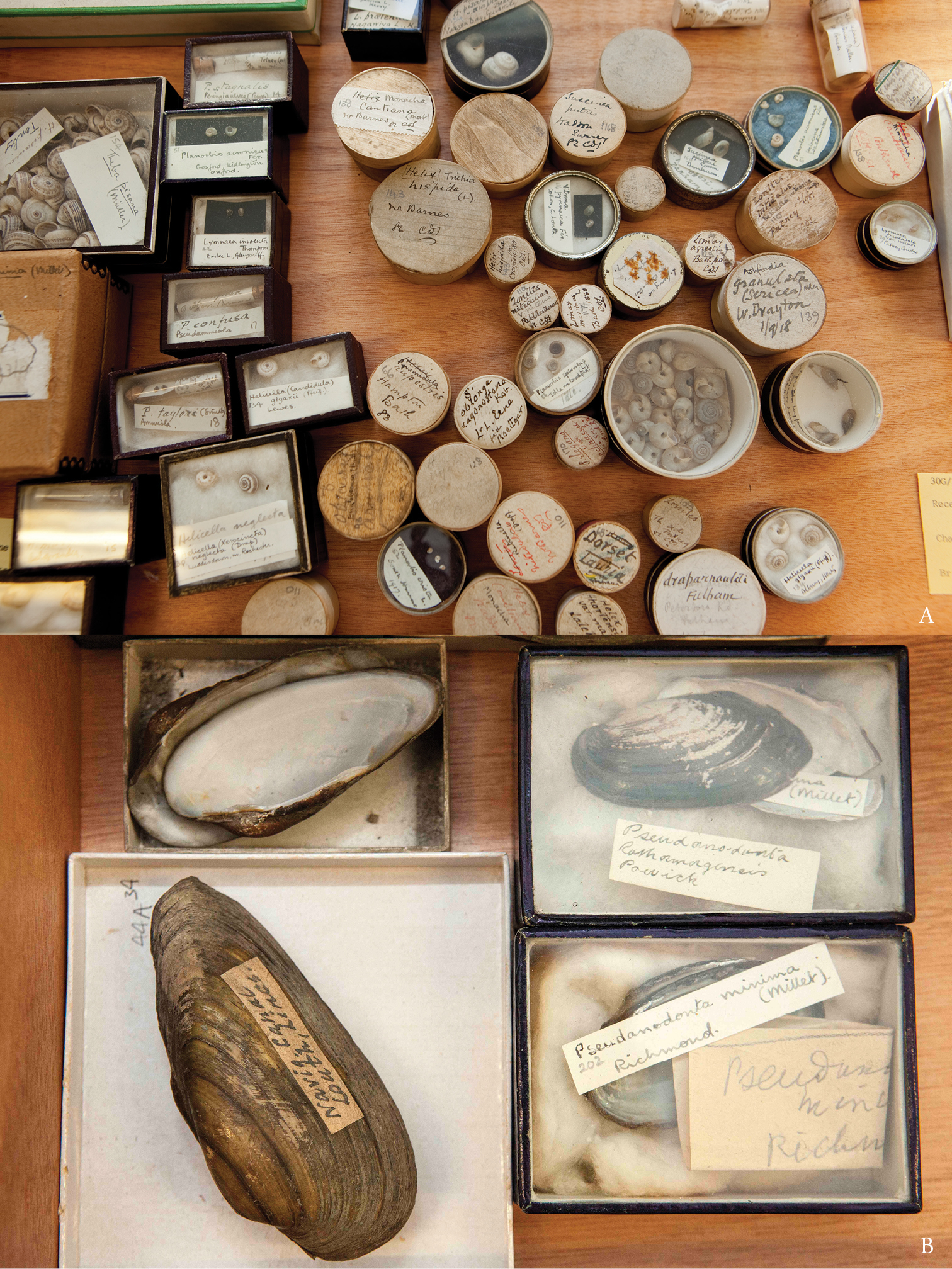 Charles Davies Sherborn Sherborn's land and freshwater mollusc collections, with specimen labels in his own handwriting. A: Gastropods, B: Bivalves.